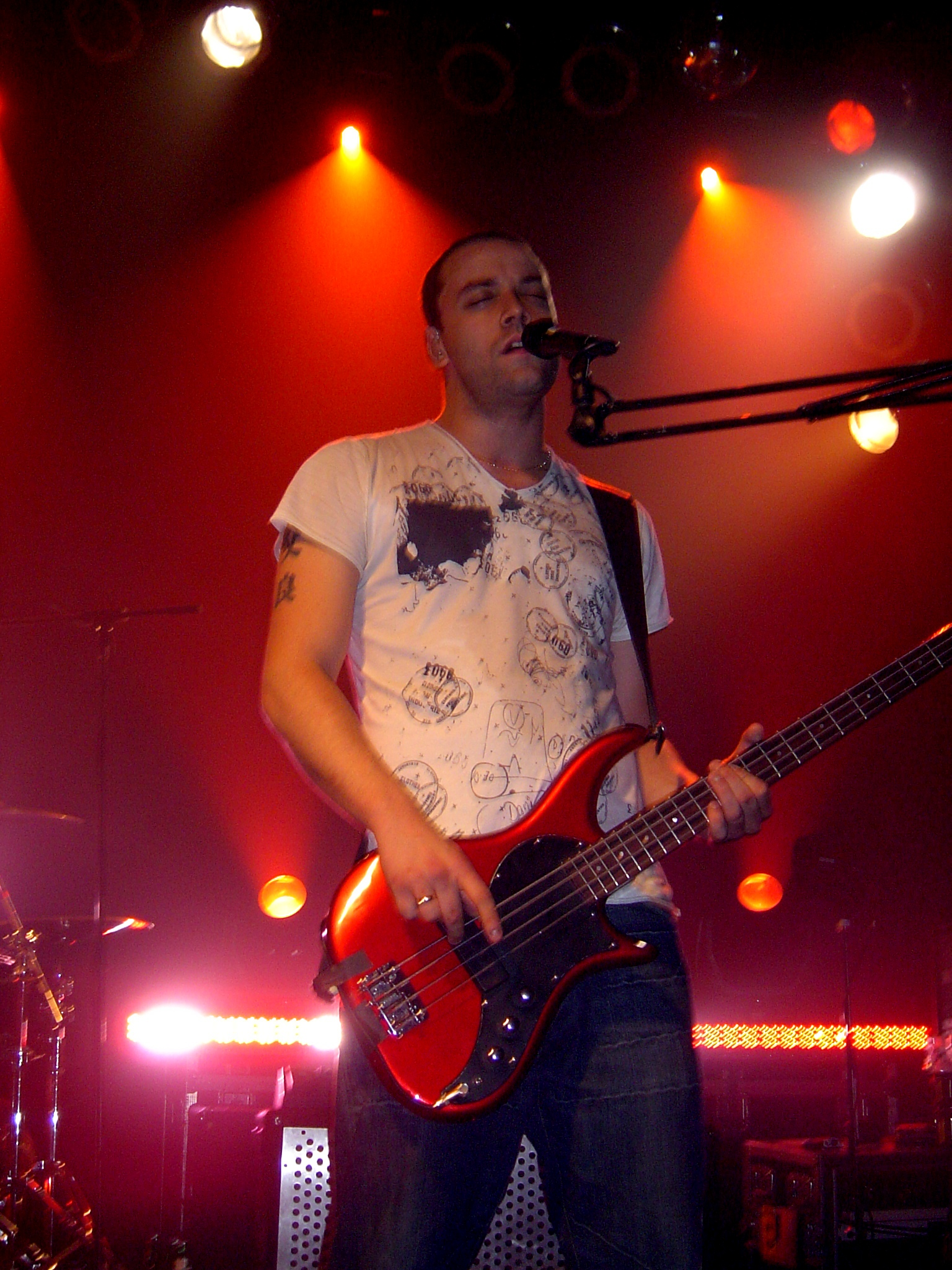 Self-taken photo April 2004 Mod Club Theatre, Toronto